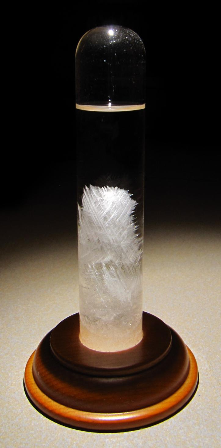 Storm Glass FitzRoy